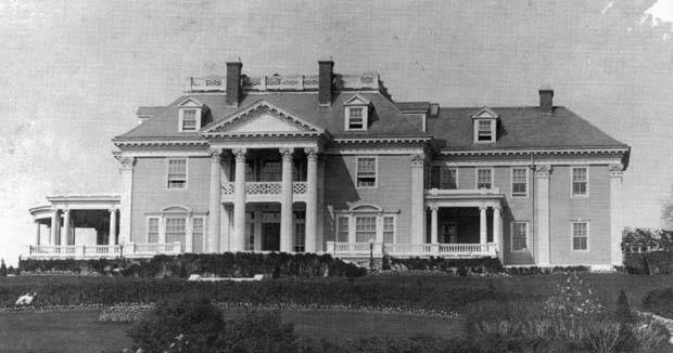 Image of the Charles Winship House taken in 1922. At the time the street was called Jordan Avenue, now Mansion Road. The house originally sat on over 10 acres of land.